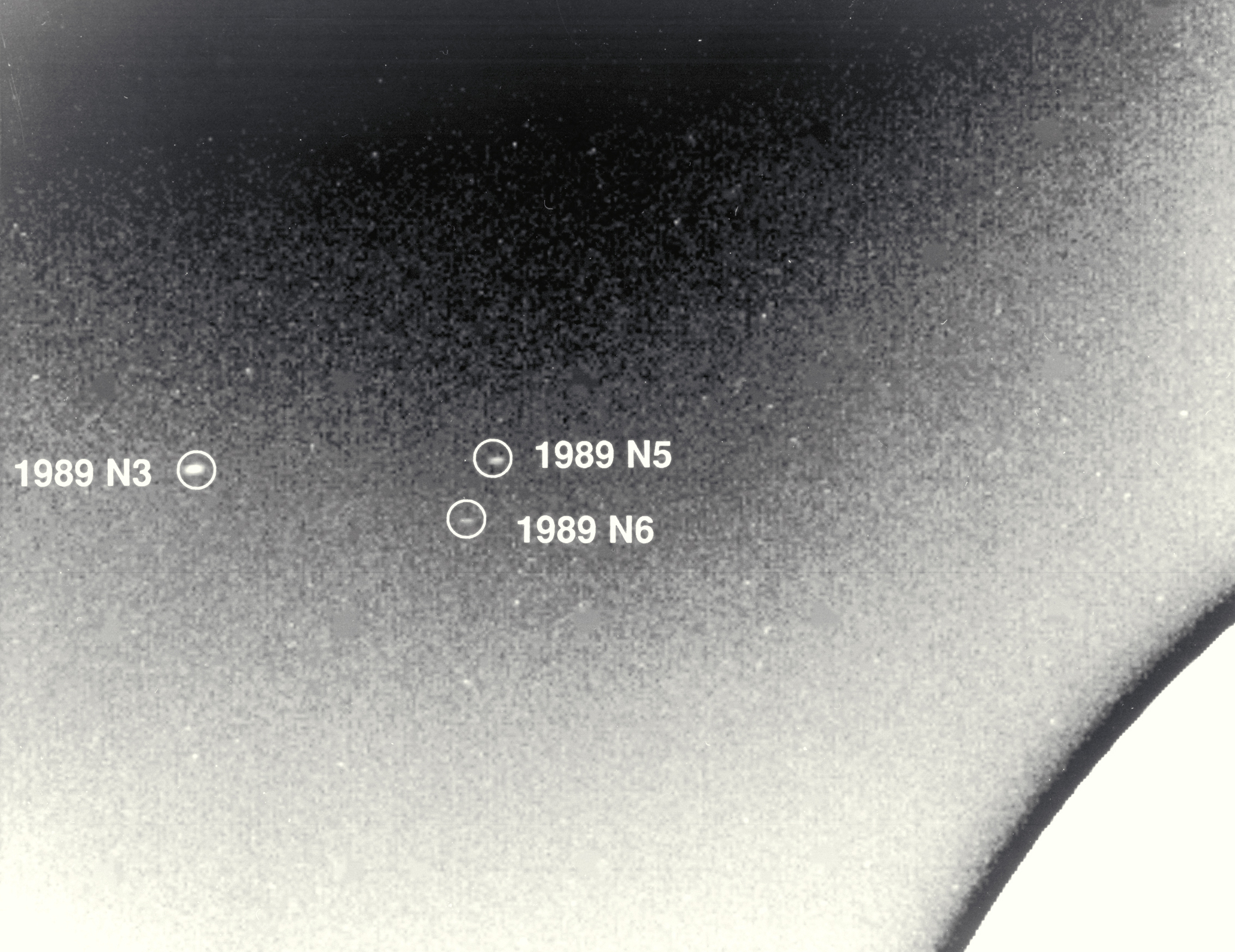 A Voyager 2 image of Thalassa (1989 N5), Naiad (1989 N6) and Despina (1989 N3) taken in 1989 at a range of 5.9 million km (3.6 million miles). The high orbital speed of the moons caused faint streaks in this exposure.